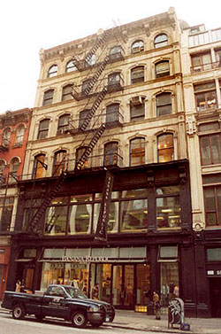 A cast-iron storefront was added to 552-554 Broadway in 1897. The storefront included a fifty-four foot long assembly of cast-iron vault lights set in the sidewalk. Glass lenses in the panels allowed light to enter the basement area, increasing rentable space for the building owner.